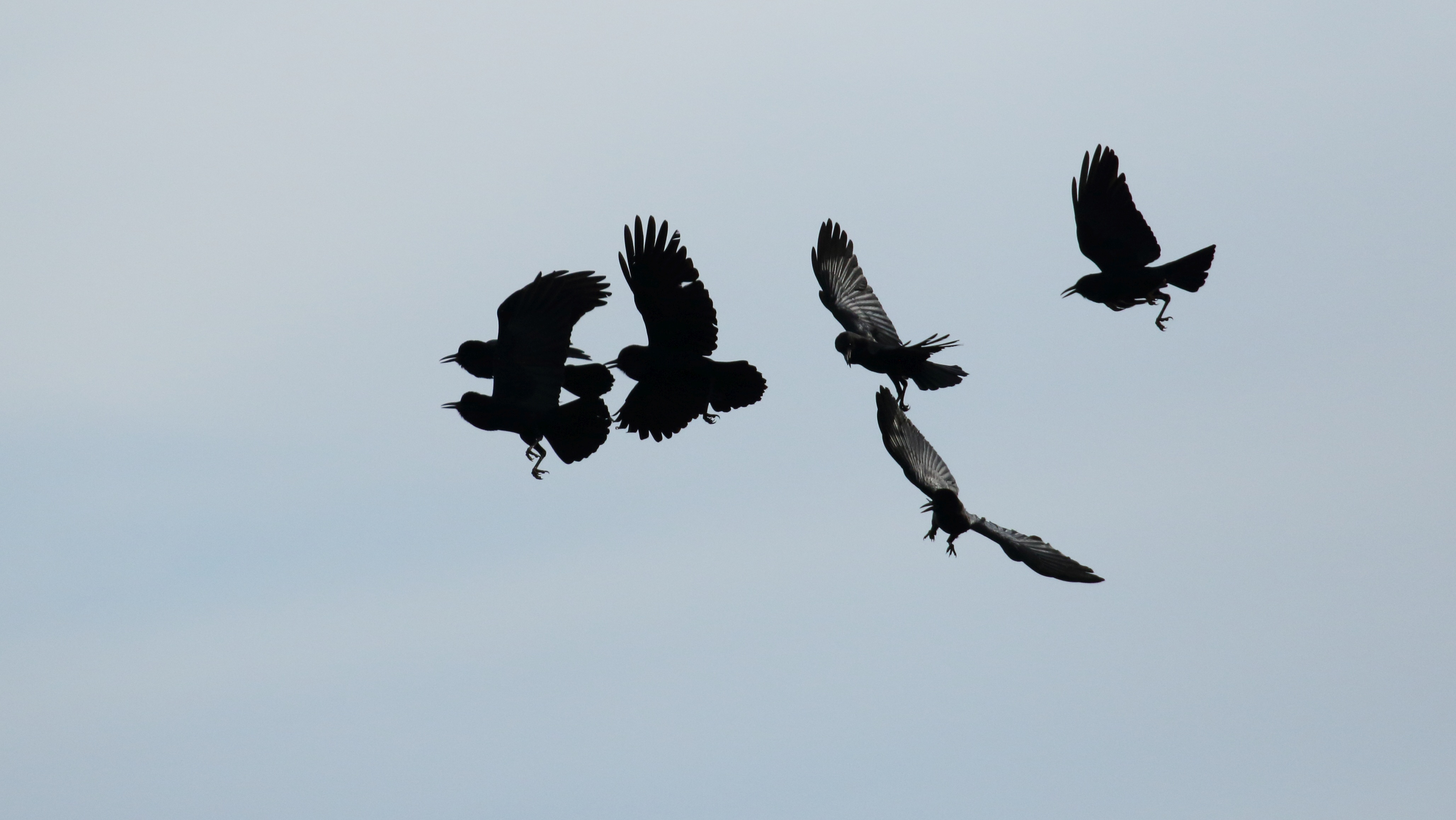 Cape Crows (Corvus capensis) at Cedara Research Farm, KwaZulu-Natal.